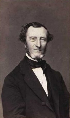 Peter Frederik Adolph Hammerich (1809-1877), Danish theologian, historian, and politician, MP